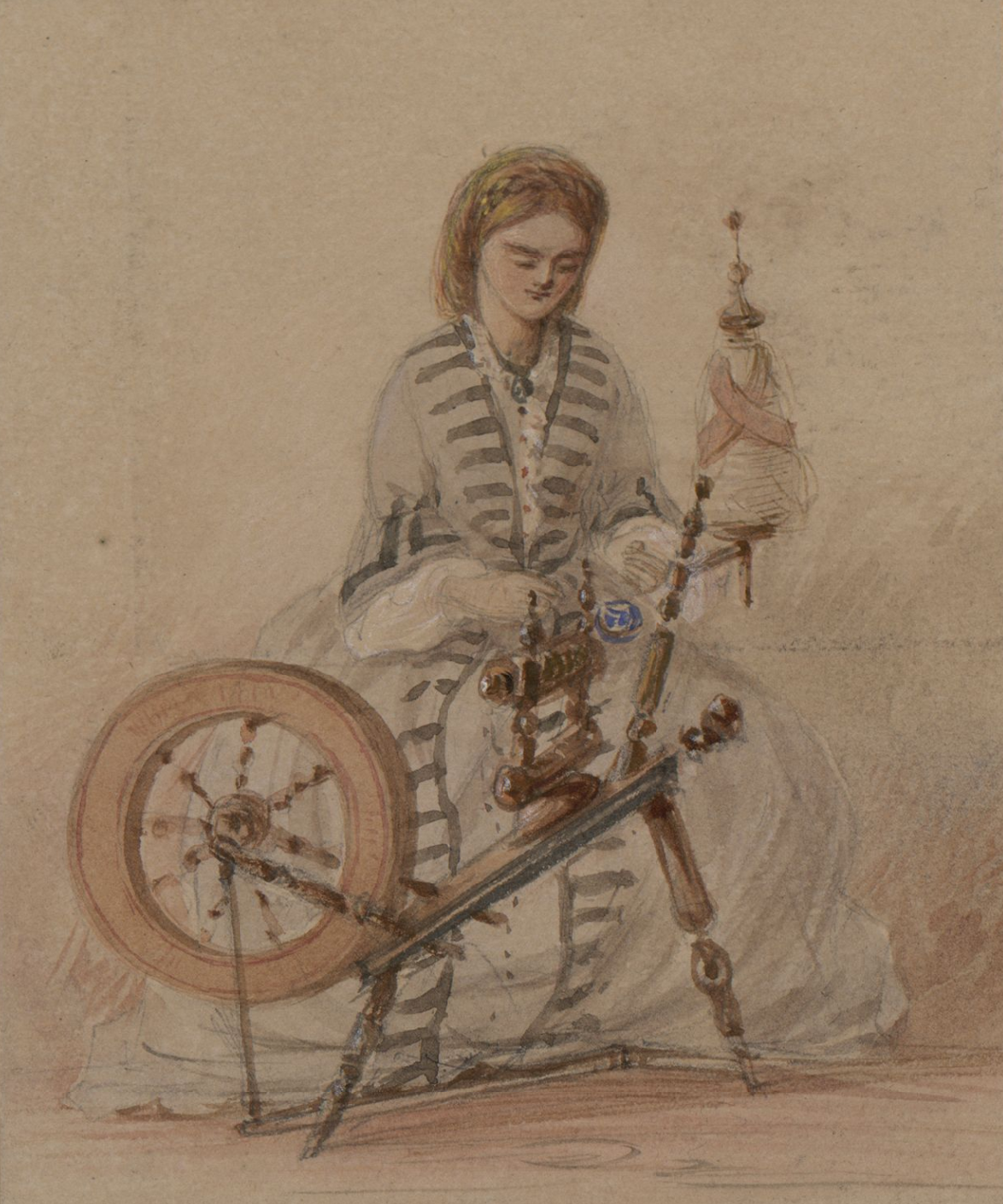 Examples of artwork on a variety of subjects and in a variety of styles by Francis Elizabeth Wynne from a sketchbook (ca. 420 drawings): mixed media, including watercolour, wash and, pen and ink.